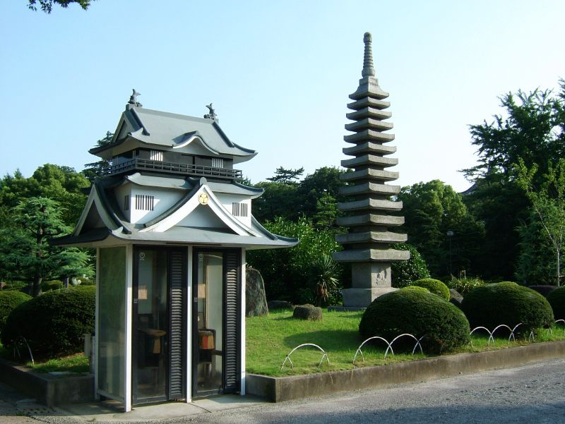 Castle themed phone booth. 岡崎公園にある岡崎城のような電話。